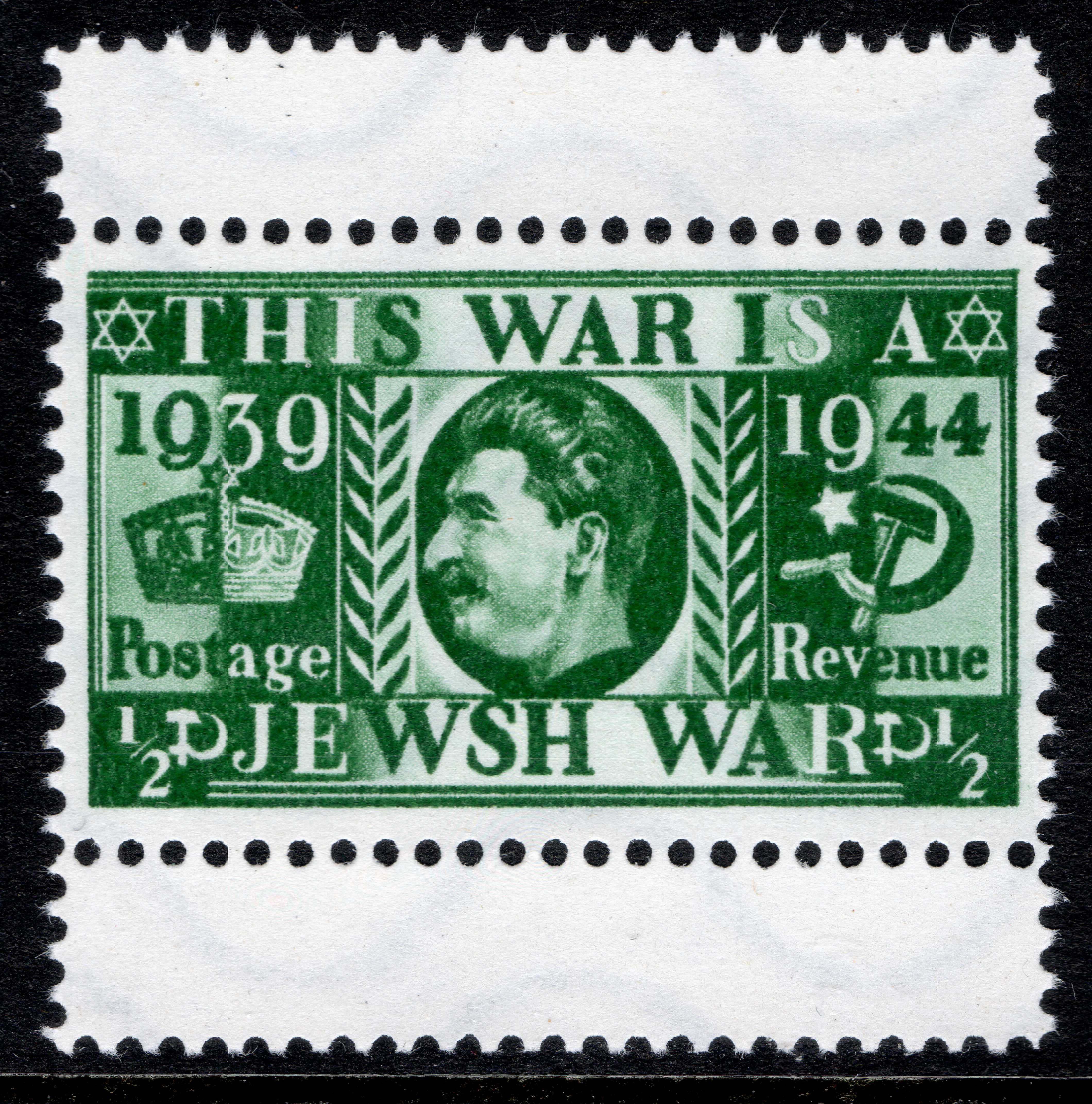 A 1944 German propaganda stamp produced in 1944 by prisoners in the Sachsenhausen concentration camp for Unternehmen Wasserwelle (Operation Waterwave). The stamp was based on the 1935 British Silver Jubilee half penny stamp. It has never been properly explained why the word "Jewish" was misspelled. Top and bottom gutters included.